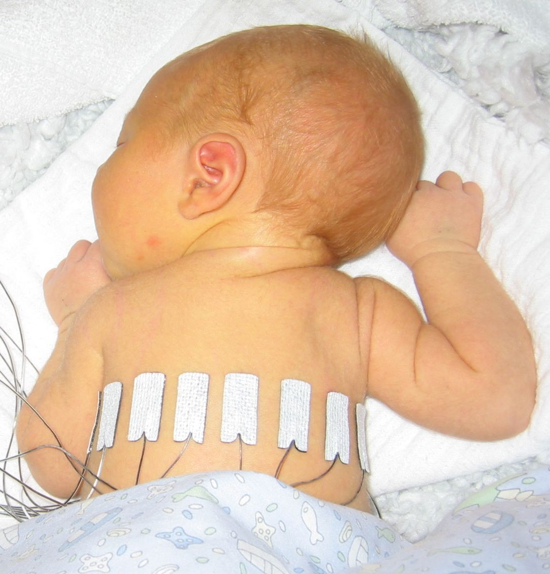 10-day old spontaneously breathing neonate lying in the prone position as part of a study of the effect of posture on ventilation in infants. Electrodes attached for Electrical Impedance Tomography lung monitoring.